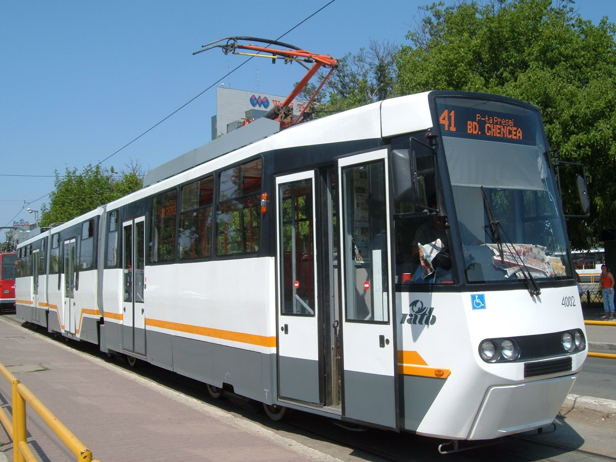 CH-PPC low floor tramway in Bucharest on route 41.